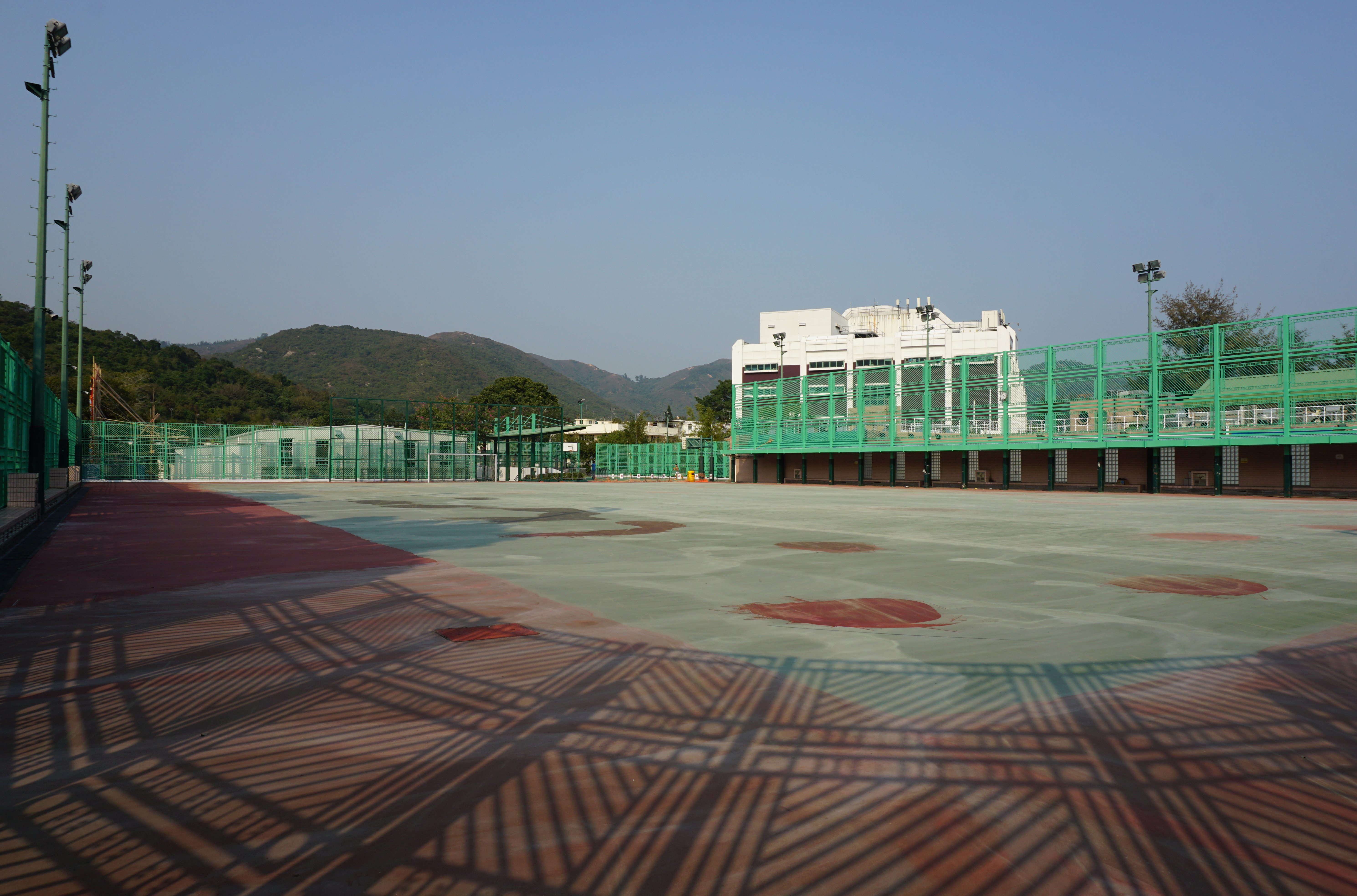 Playground in Mui Wo, Hong Kong.